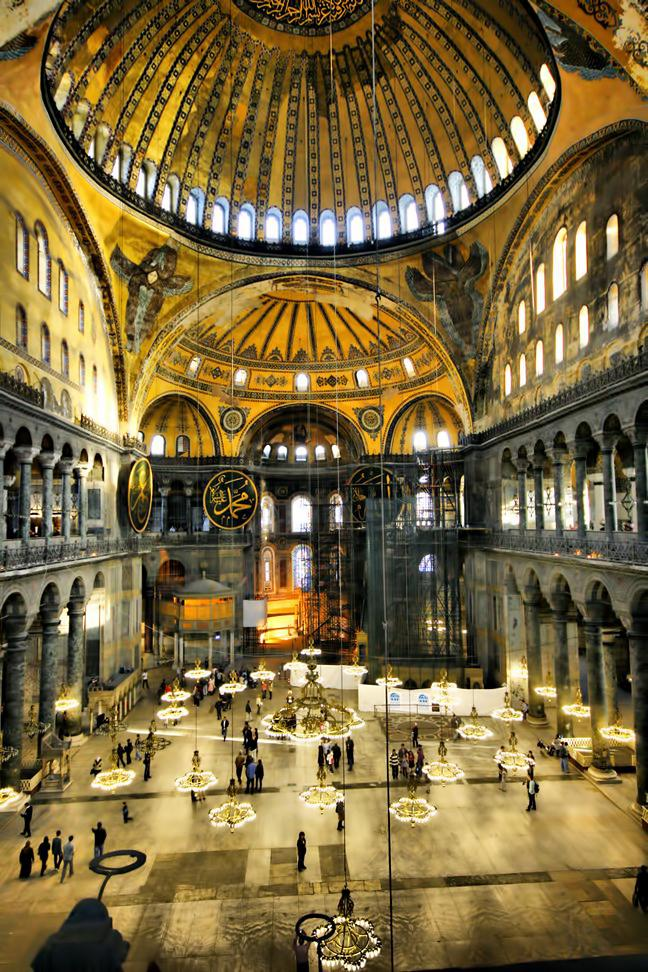 Hagia Sophia is a former Orthodox patriarchal basilica, later a mosque, and now a museum in Istanbul, Turkey.